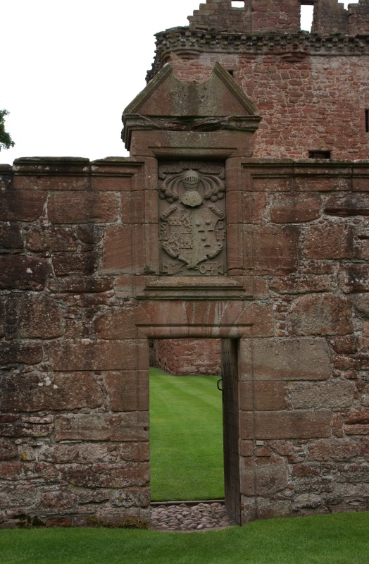 Edzell Castle, Angus, Scotland. East entrance to garden.